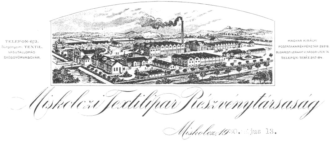 Stationery for Miskolc Textile Co., 1930